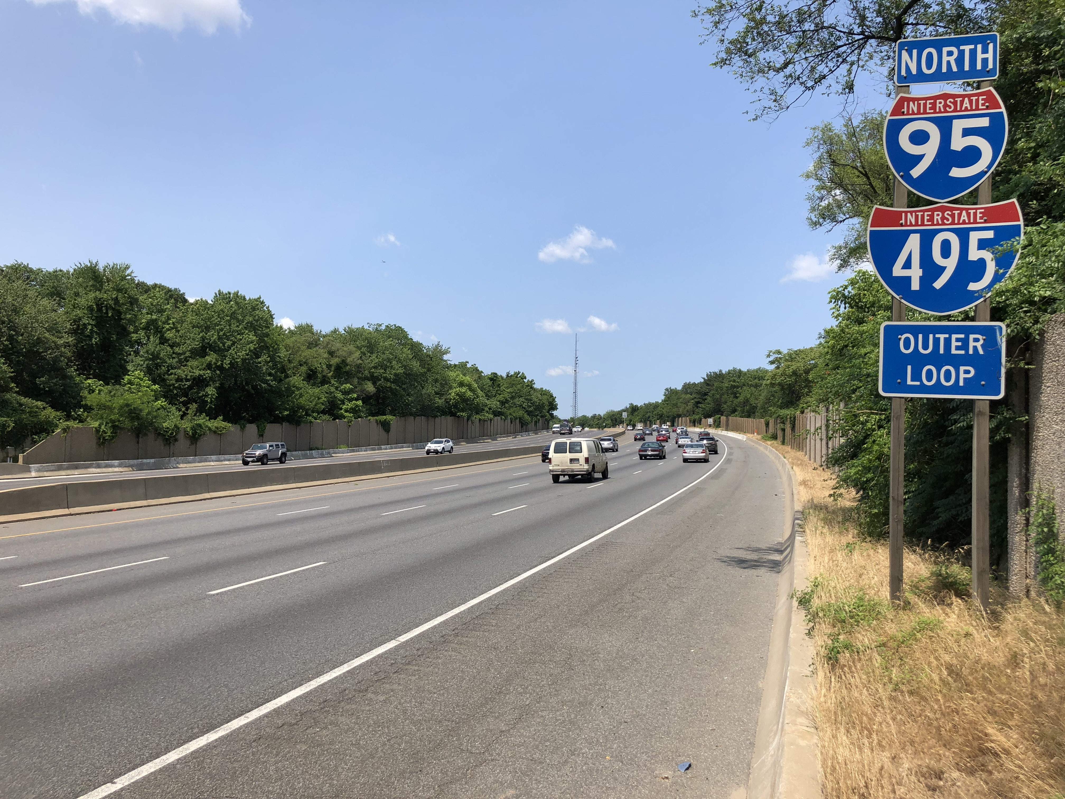 View north along the outer loop of the Capital Beltway (Interstate 95 and Interstate 495) between Exit 23 and Exit 25 in College Park, Prince George's County, Maryland